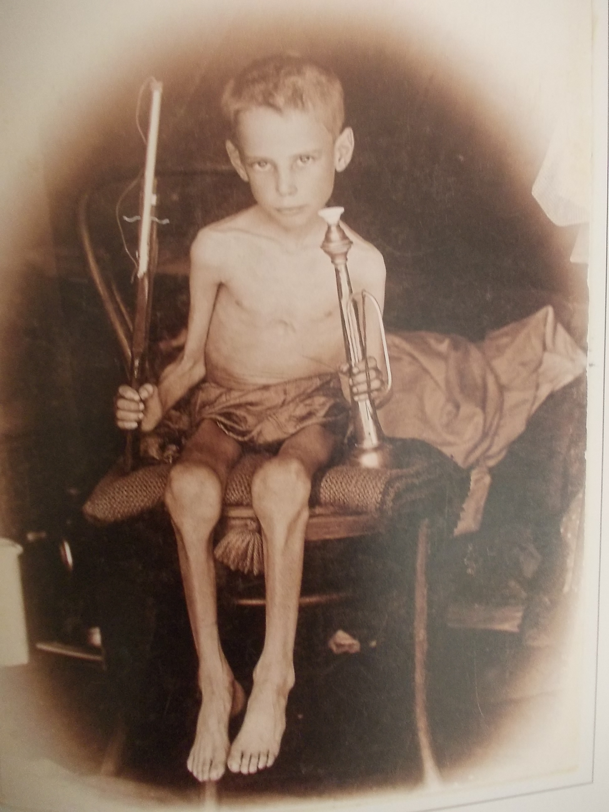 Young boy - Irene was the site of a concentration camp where the British housed the Boer women and children during the Second Anglo-Boer War (1899-1902)